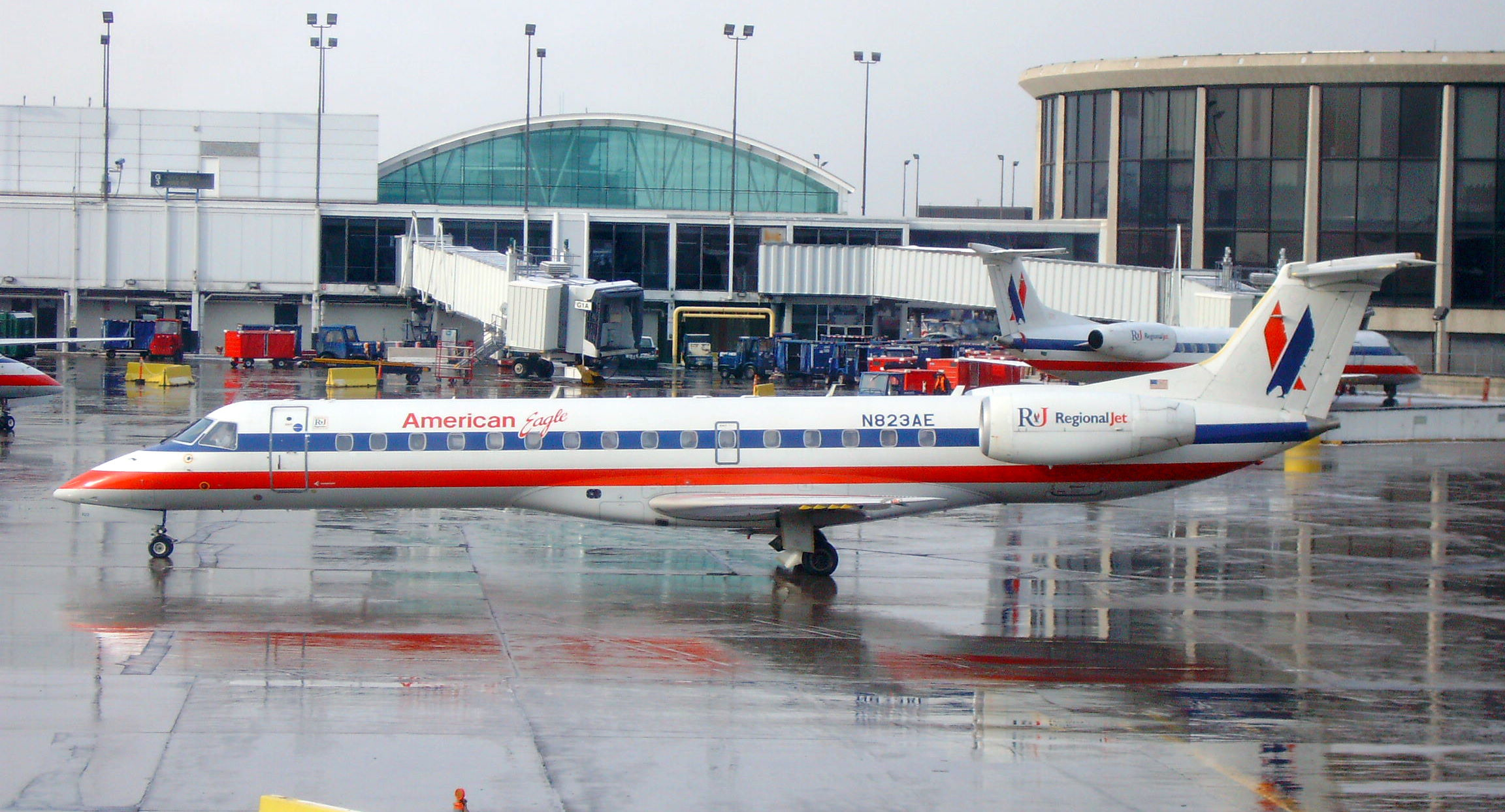 American Eagle Airlines ERJ-140 at O'Hare International Airport. Own work.